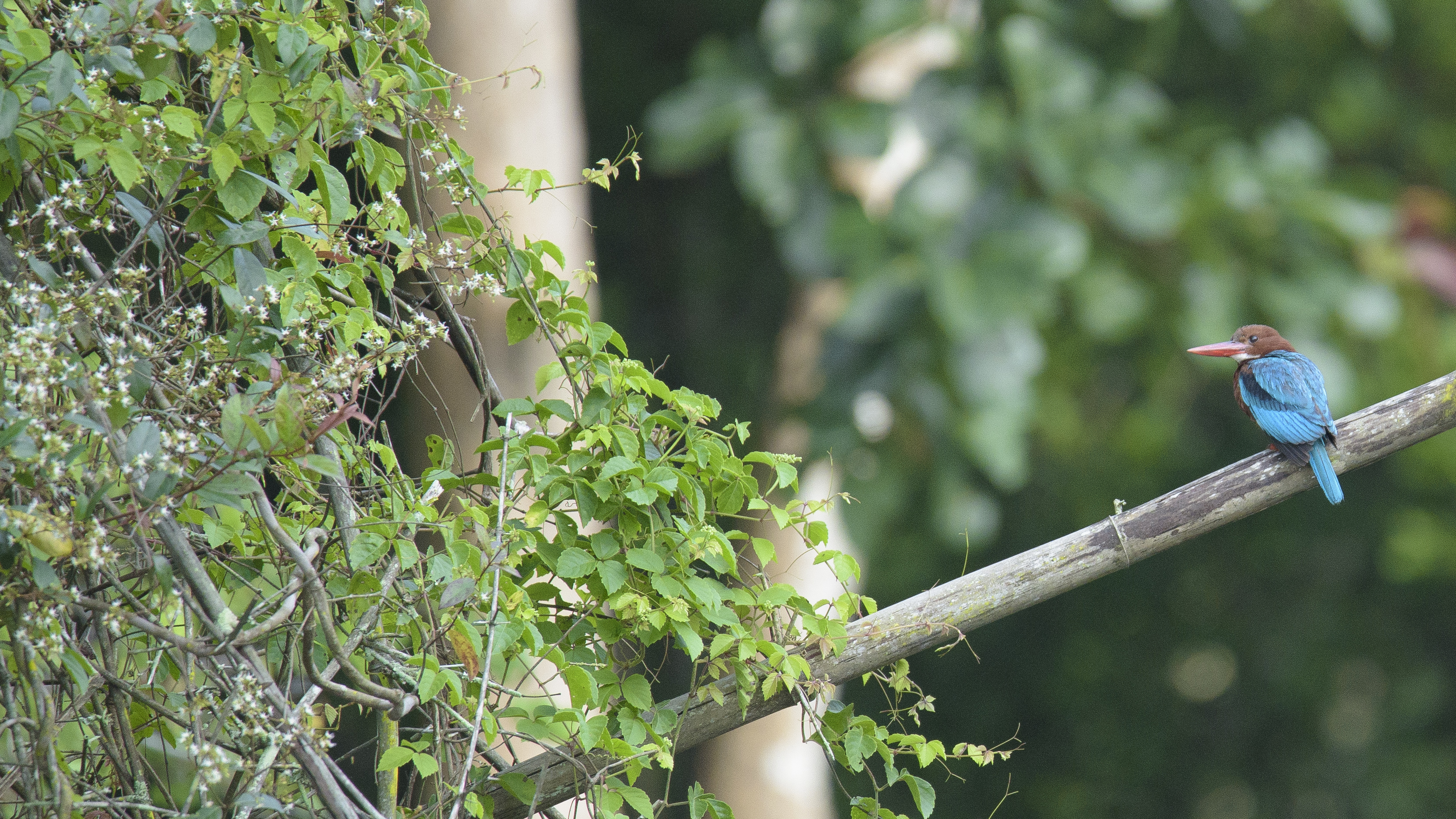 A Kingfisher resting on a bamboo trunk in Bandipur National Park, Karnataka alongside the Kabini river.